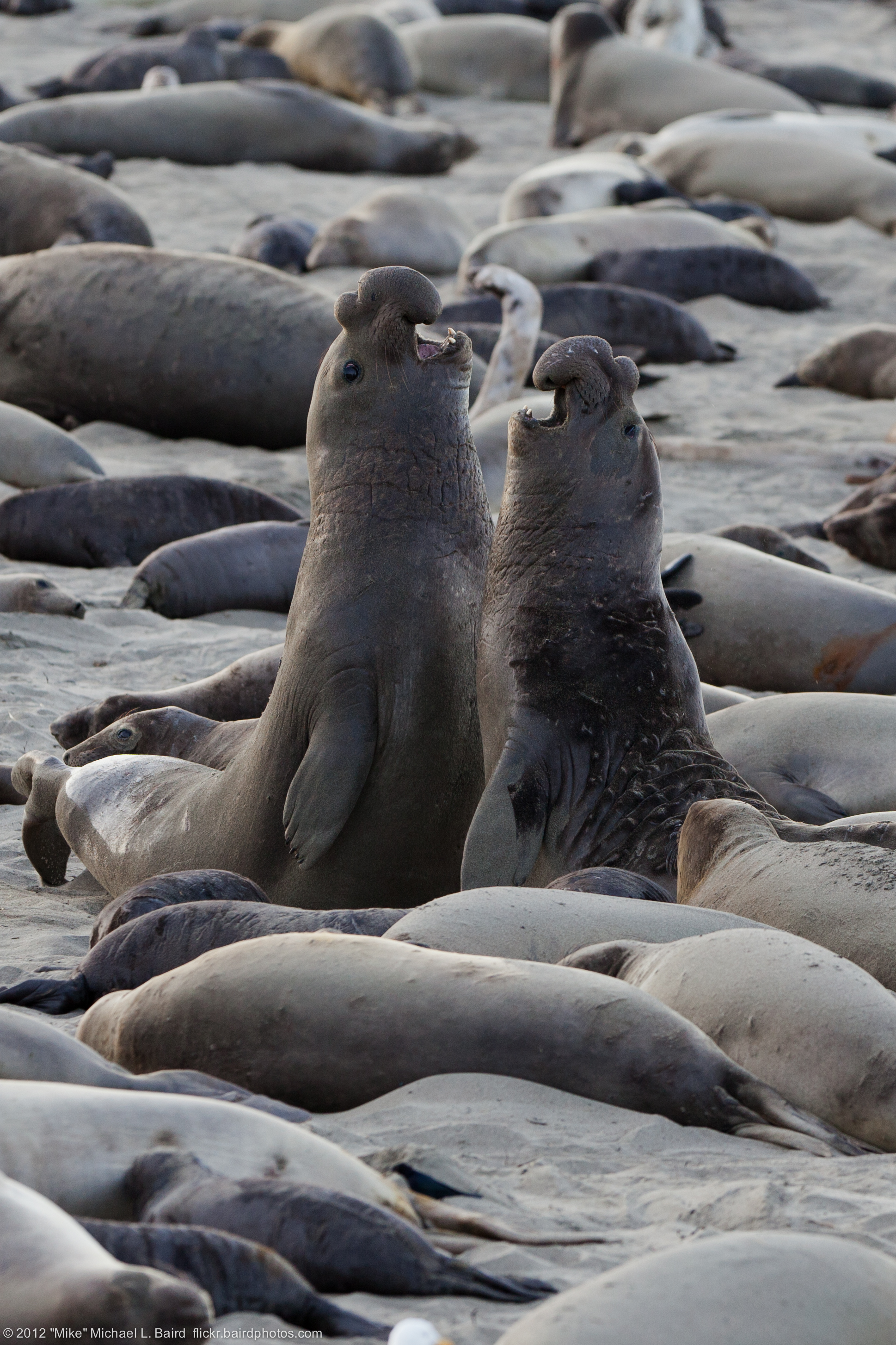 Northern Elephant Seals (M. angustirostris) at sunrise early light at Piedras Blancas, San Simeon, CA 03 Feb 2012. Massive Alpha Males were most active today, breeding, and engaging in battles in between to defend their territories and harems. There was much posturing, grunting, bellowing, chasing, crashing into each other, biting and thrashing until the dominant male was established. At Piedras Blancas light is everything. The beach was crowded with a mass of elephant seals, a must-see exhibition. The main goal this morning was to capture a battle of the Alpha Males as they defend their territory during the height of the mating season and before the females head back out to sea. Photo © 2012 “Mike” Michael L. Baird, mike {at] mikebaird d o t com, , Canon EOS 5D Mark II 21.1MP Full Frame CMOS Digital SLR Camera with Canon EF 300mm f/2.8L IS USM Telephoto Lens for Canon SLR Cameras, without Circular Polarizer until about an hour after sunrise, then after with the polarizer on, at least partially engaged, on a Wimberley Head II from on a Gitzo GZGT5540LS Gitzo Series 5 tripod, Systematic Tele Studex 6 X Carbon Fiber 4 Section Tripod Legs with G-Lock, Maximum Load 55.0 lbs. Maximum Height 59.4, Leveling base, RAW, IS was off with this massive tripod and no wind. Autofocus using single-center focus point (almost always focusing in the eye first and then recomposing) , one-shot (not AI Servo) mode, burst mode.